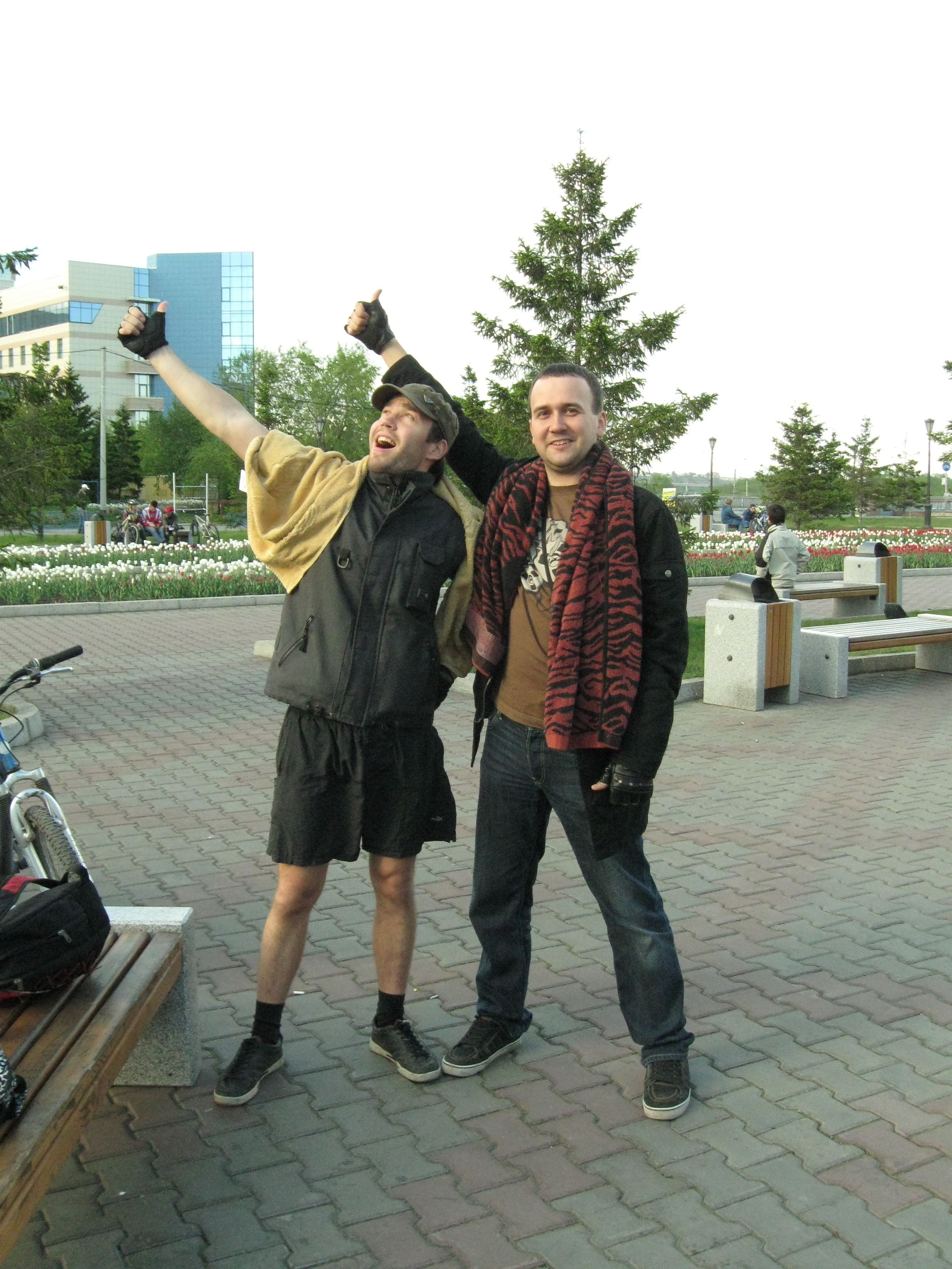 Towel day Krasnoyarsk